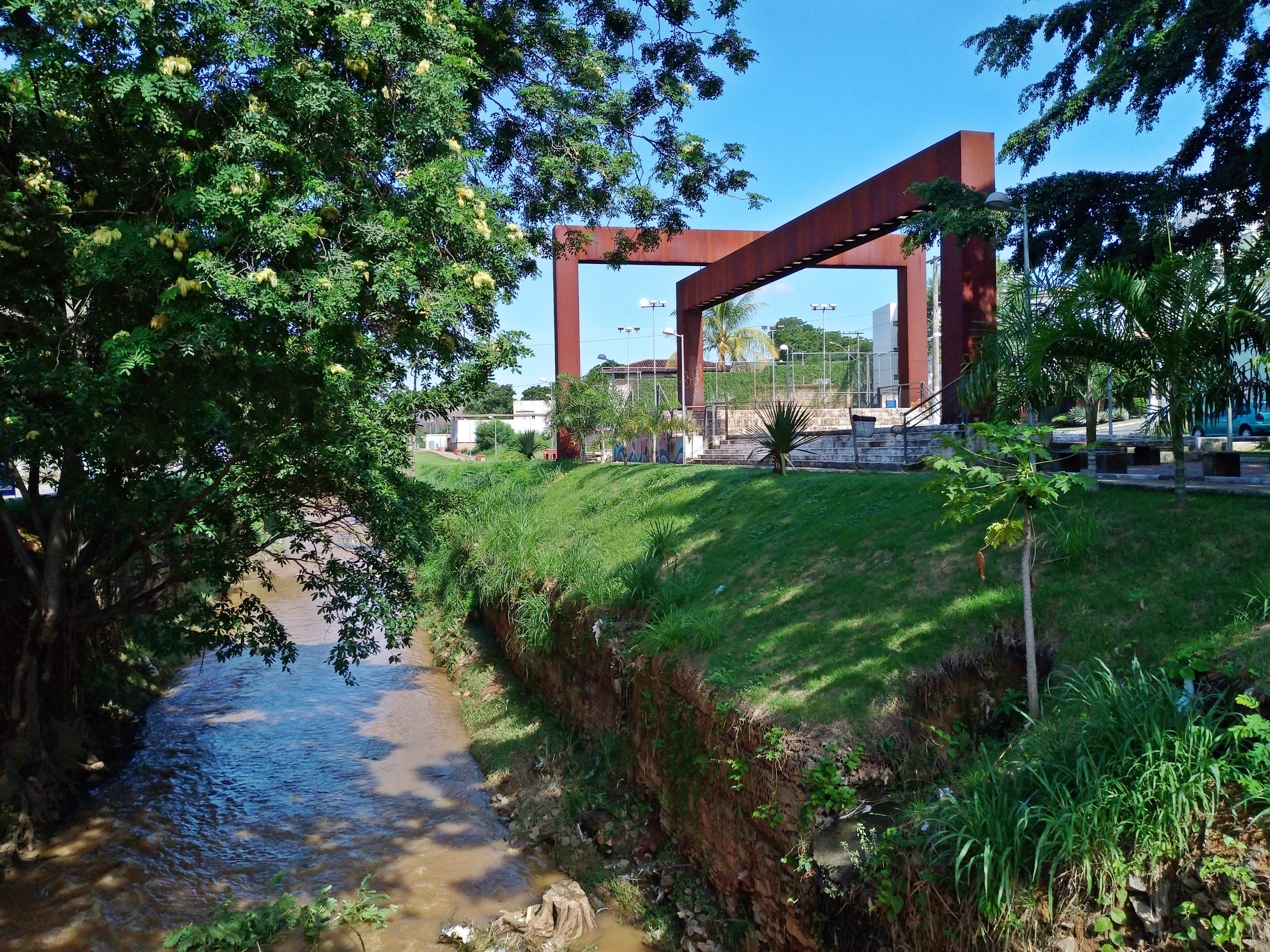 The Caladão Stream and the Parque Linear square on the right in the Santa Helena neighborhood, in Coronel Fabriciano, Minas Gerais, Brazil.